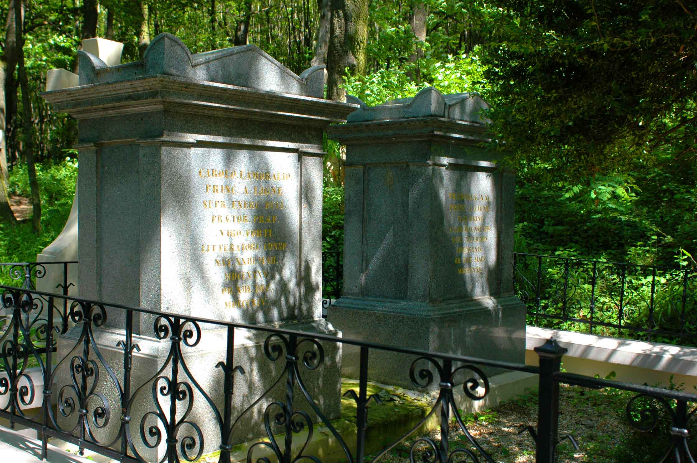 Charles Joseph (also Charles-Joseph) Prince de ligne (born Brussels, 23 May 1735 – 13 December 1814 in Vienna) was an officer and diplomat in Austrian services and writer. With the Scouts of Voltaire and Rousseau, he processed his personal encounters later to mind and knowledgeable experience books. He died in 1814 during the Congress of Vienna and was buried in the small cemetery of Josefsdorfer Waldfriedhof, on the Kahlenberg Hill, one of his favorite places in Vienna.